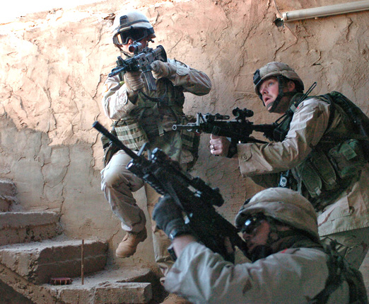 Cavalry scouts from the 1st Infantry Division, fight their way through southern Fallujah.